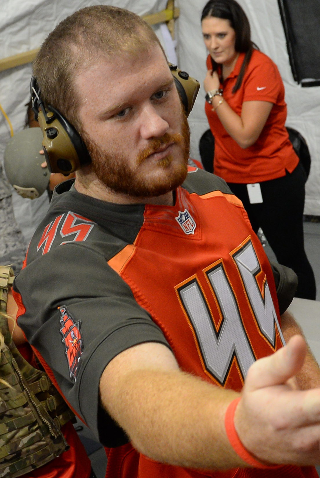 The Tampa Bay Buccaneers try on tactical gear with U.S. Special Operations Command Deployment Cell personnel on MacDill Air Force Base in Tampa, Fla., Nov. 7, 2017. The football players and cheerleaders toured USSOCOM and other base facilities to meet with currently serving personnel and to experience a glimpse of military life. (Photo by U.S. Air Force Master Sgt. Barry Loo)